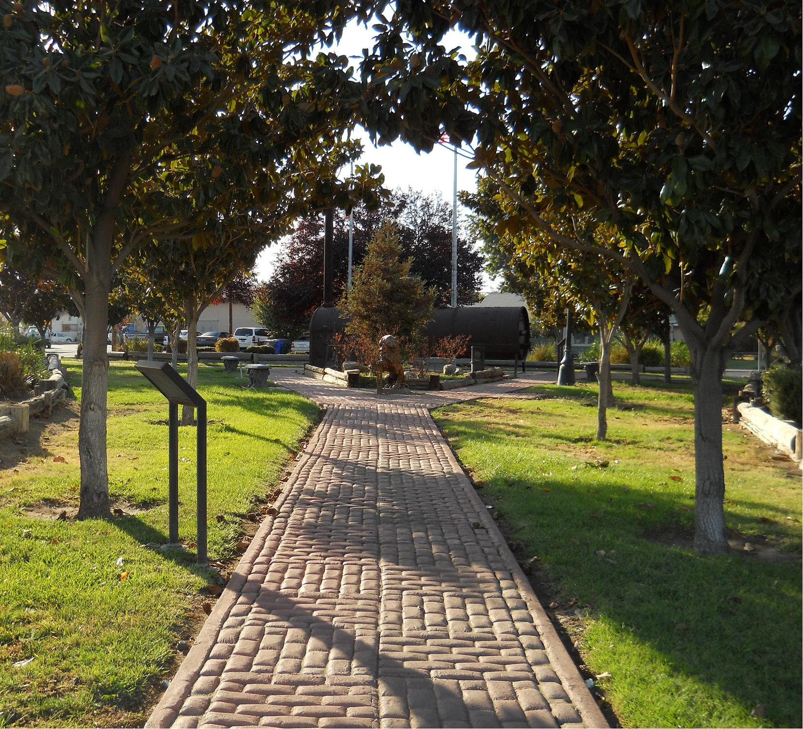 Coalinga Polk Street School. The building was destroyed by an earthquake in 1983. Its bell tower is on display at the R.C. Baker Museum in Coalinga.